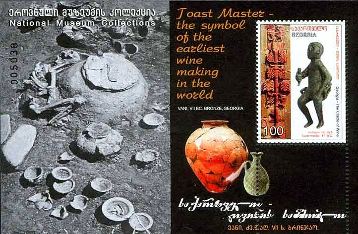 Postal Stamp of Georgia - This souvenir sheet pictures a bronze statue from the VII century BC. It was discovered during archaeological excavations in the city of Vani. This statue is the statue of a Tamada, a toast master, and as you see on the souvenir sheet it is sometimes considered as the symbol of the earliest wine making in the world. The sheet also pictures amphora that were used at this time to carry and to stock the wine.